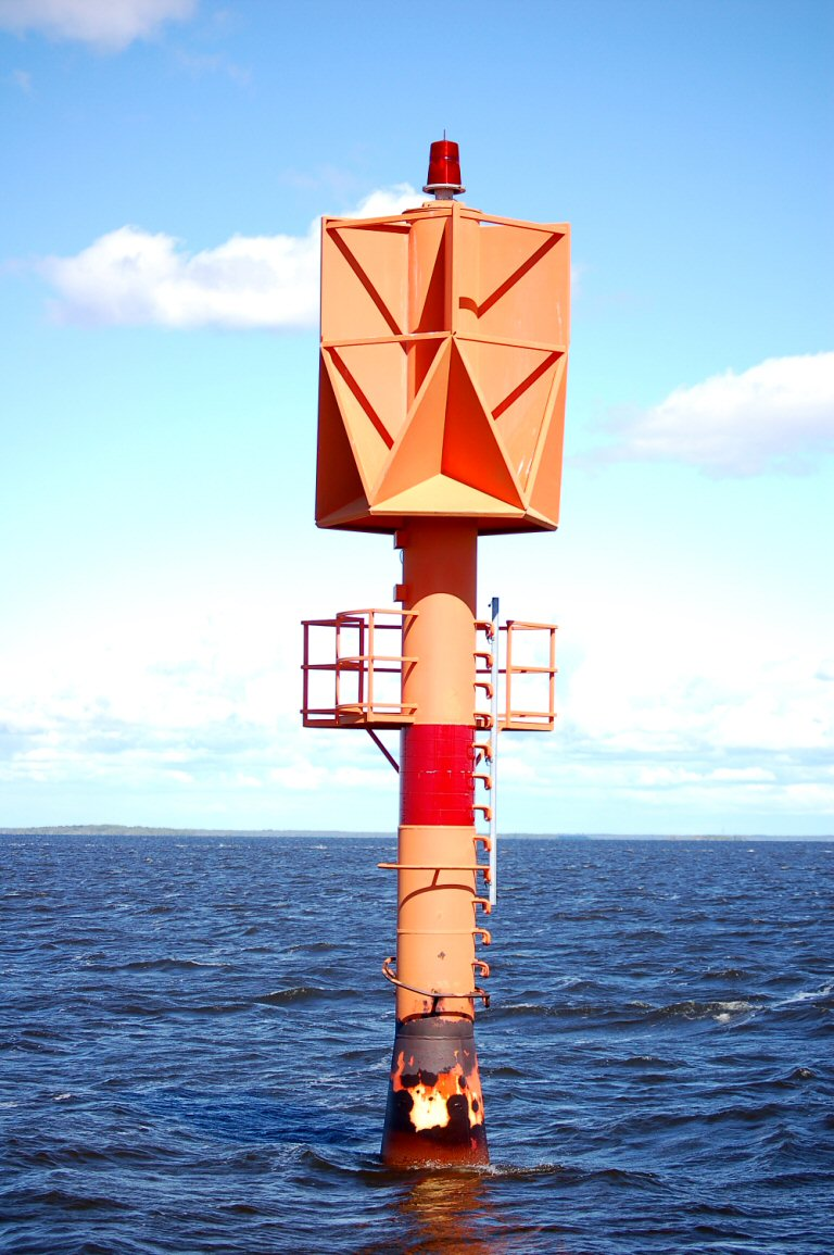 Lateral red fixed marker with radar reflector.